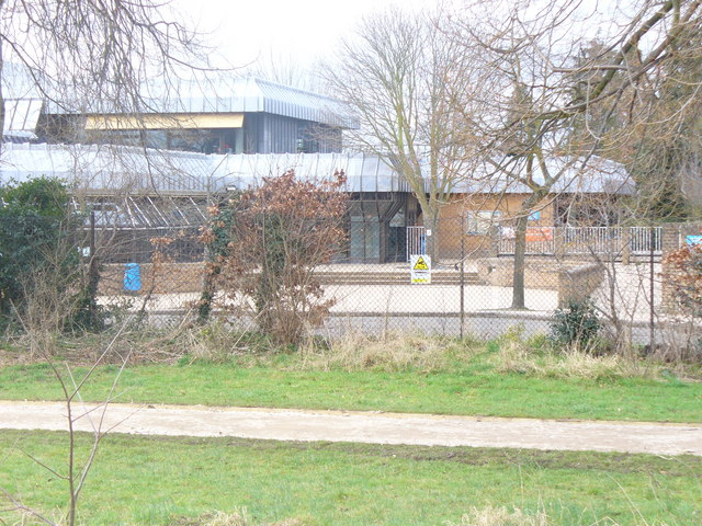 The German School, Petersham Die Deutsche Schule occupies modern buildings adjacent to Ham Polo Club, south of Richmond.